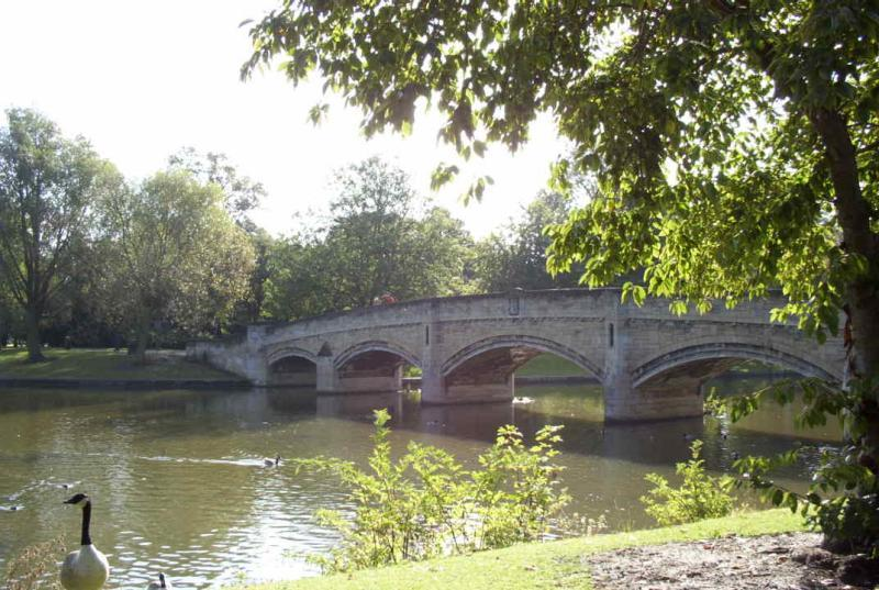 Bridge over River Soar, Abbey Park taken by kev747